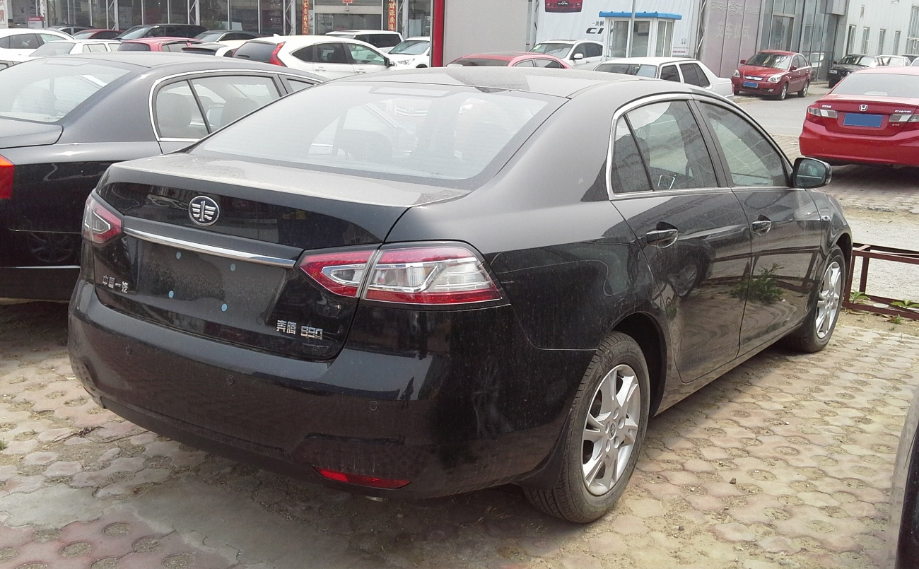 Besturn B90 photographed in Beijing, China.